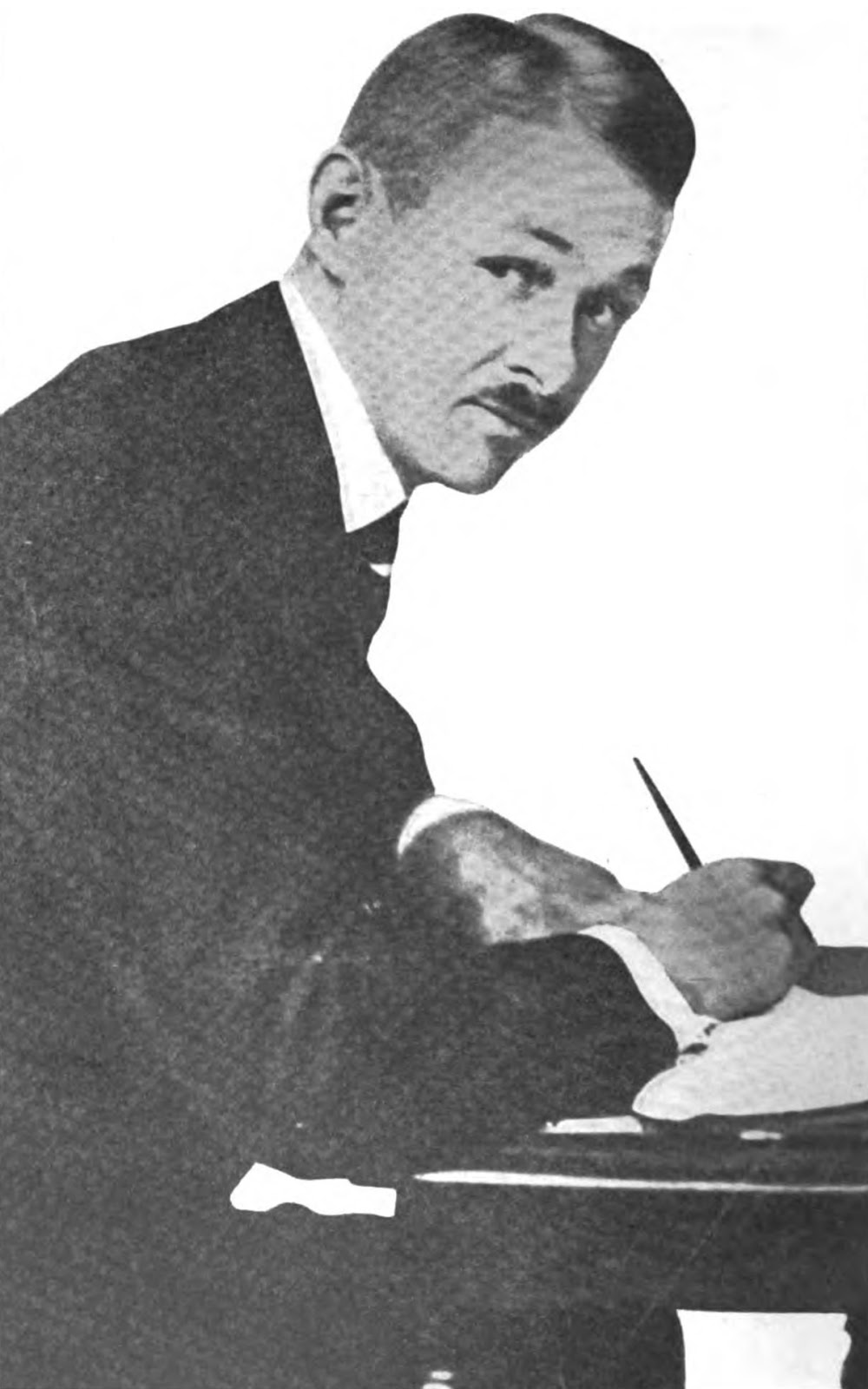 Fontaine Fox